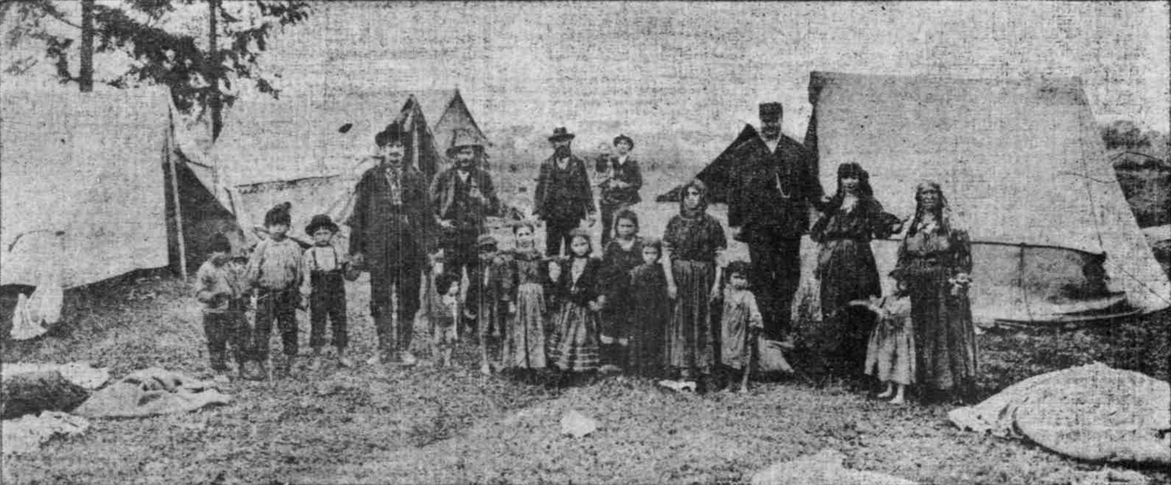 An encampment of the Roma people on the outskirts of Portland, Oregon. The photographed group faced eviction from the Portland Police.